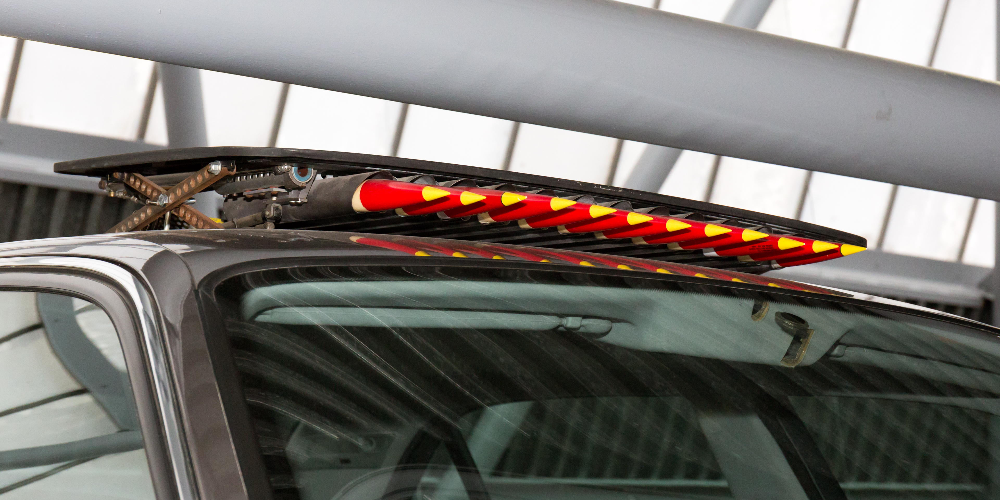 BMW 750iL, from "Tomorrow Never Dies" (1997)